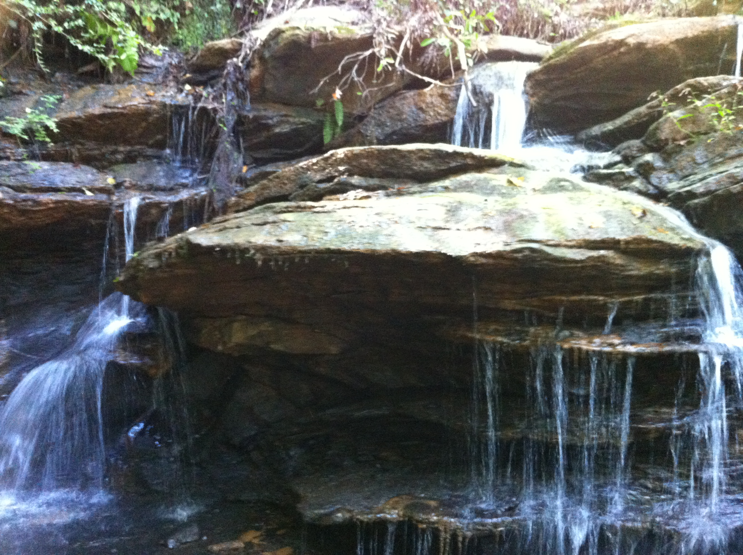 A closeup of one of the waterfalls in the Clemson Experimental Forest